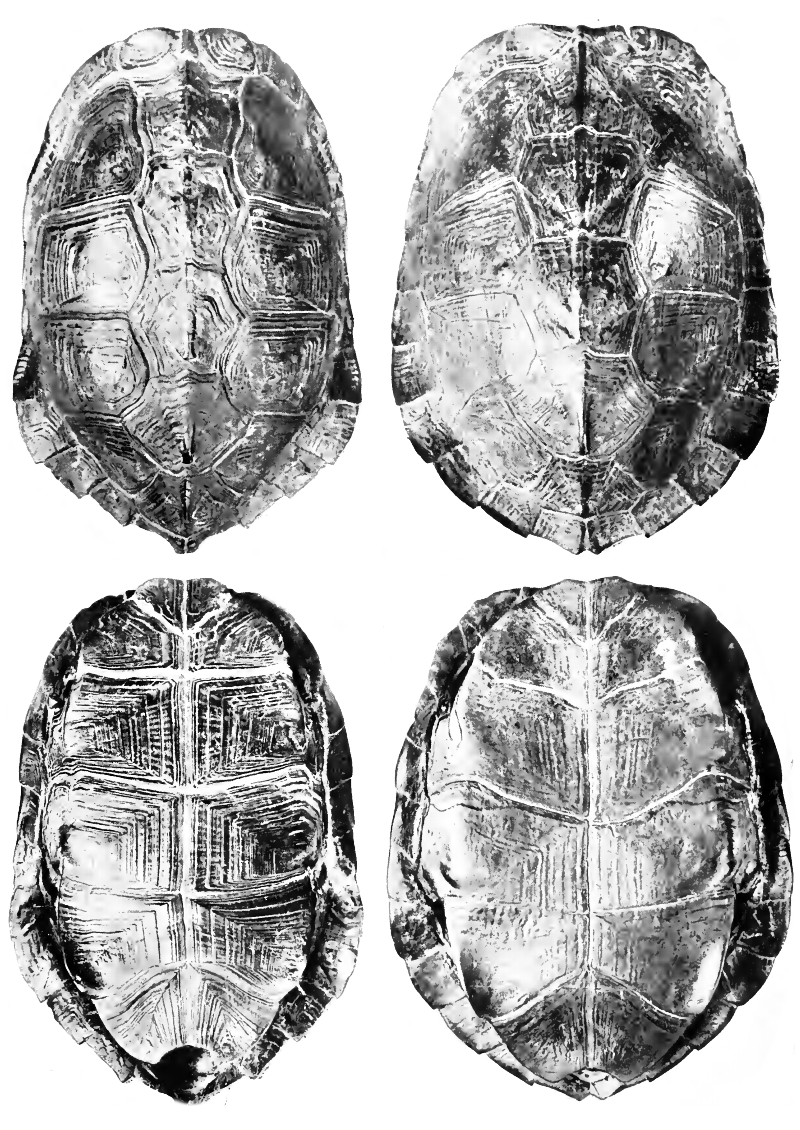 Male and female carapaces (top) and plastrons (bottom) of Cyclemys oldhamii (=Cyclemys dhor)